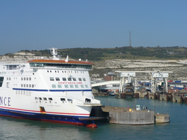 SeaFrance ferry at Eastern Dock, Dover. The SeaFrance Dover to Calais ferry 'Berlioz' at berth 3 in the Eastern Dock. 435243 can be seen at the upper right of the picture.